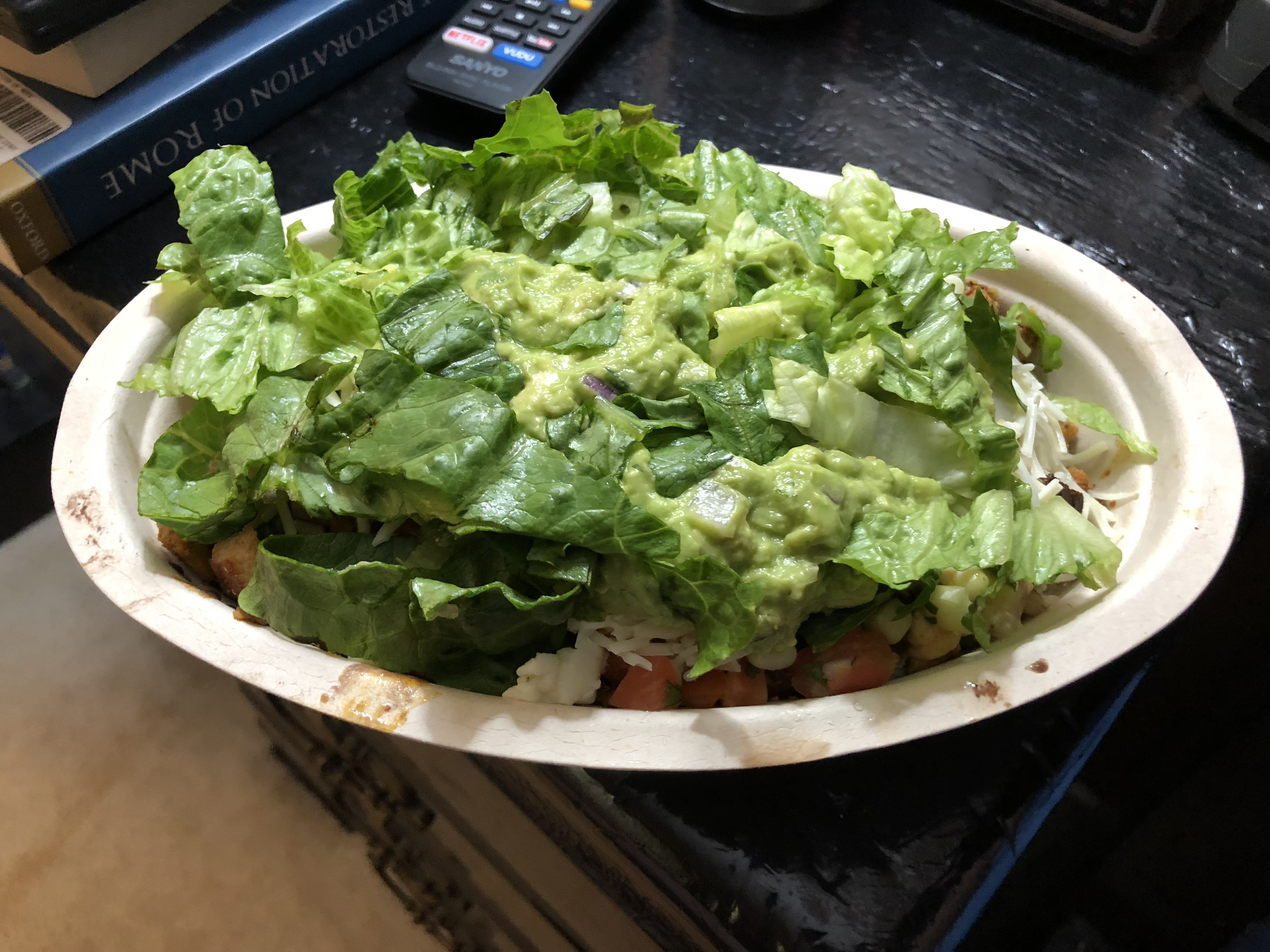 A burrito bowl with brown rice, black beans, chicken, queso, tomato, corn, sour cream, cheese, guacamole and lettuce from Chipotle in the Franklin Farm section of Oak Hill, Fairfax County, Virginia